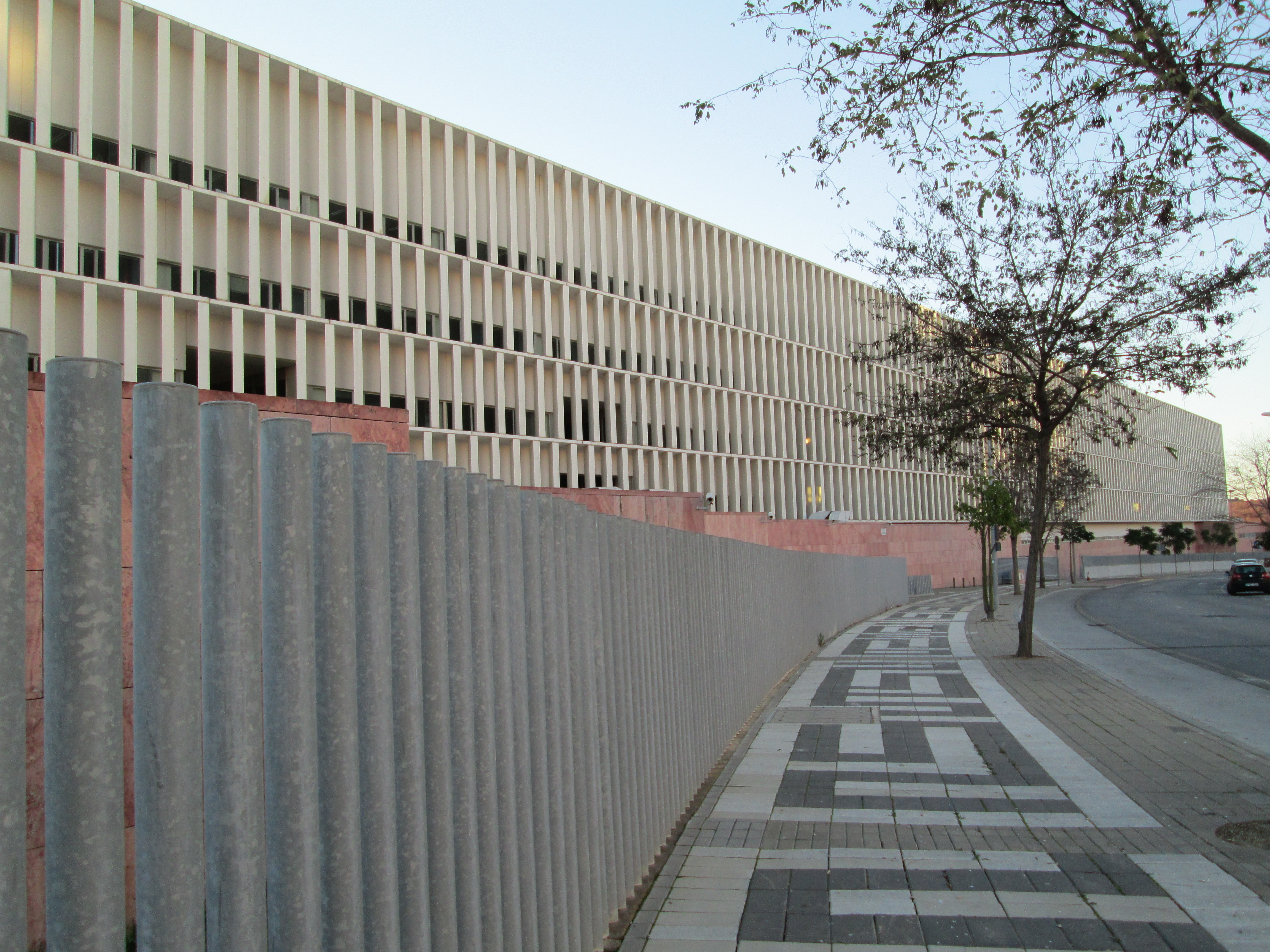 Ciudad de la Justicia, Málaga.